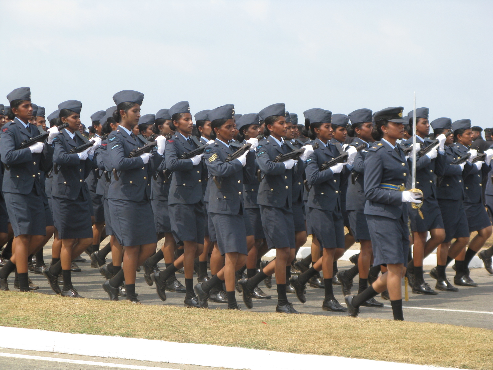 Sri Lanka Airforce